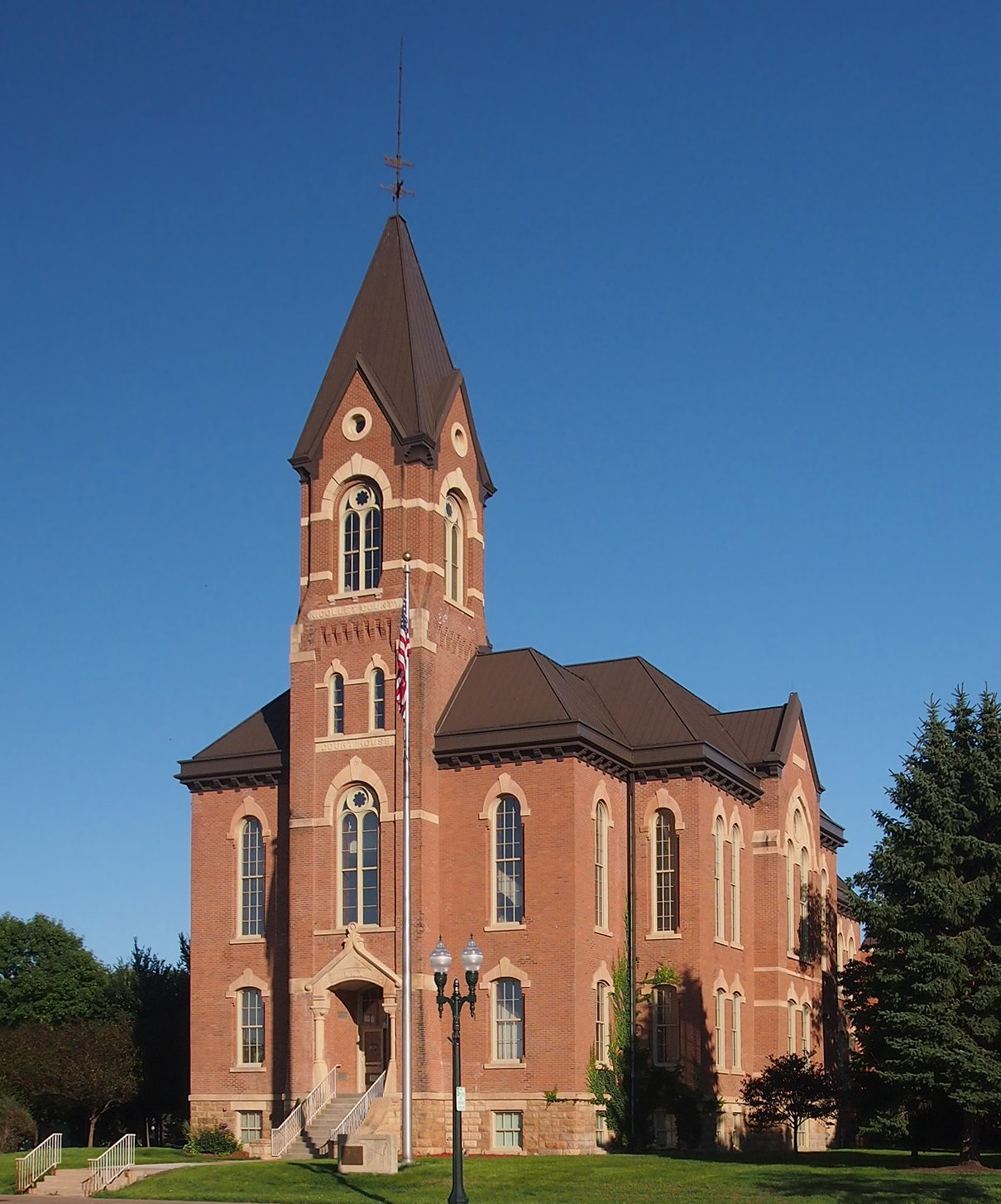 Nicollet County Courthouse, 501 S Minnesota Ave, St Peter, Minnesota, USA. Viewed from the west.